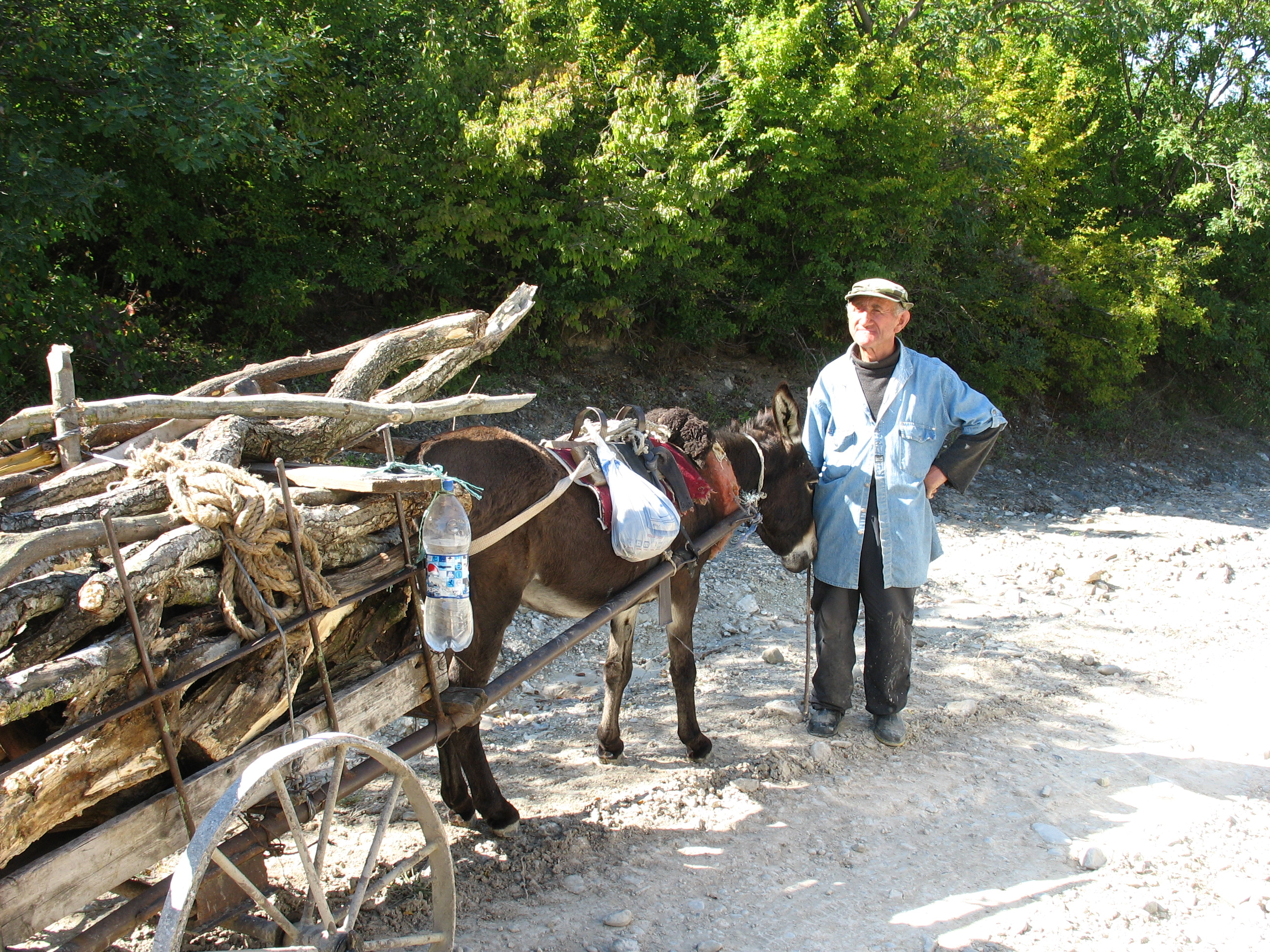 Hard work by a donkey in Georgia